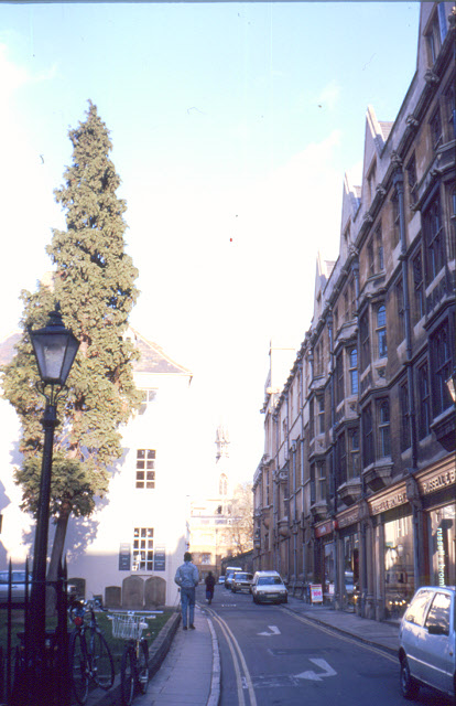 Ship Street, Oxford, from the west end looking east